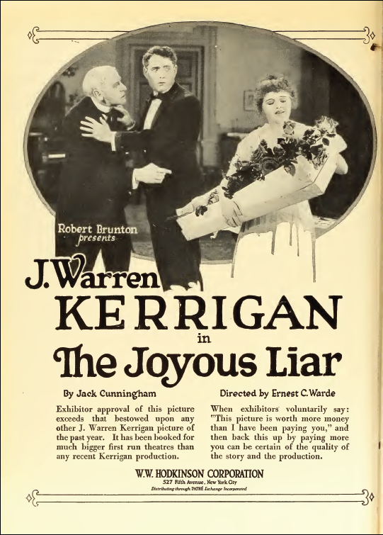 Advertisement with J. Warren Kerrigan in the film The Joyous Liar (1919).